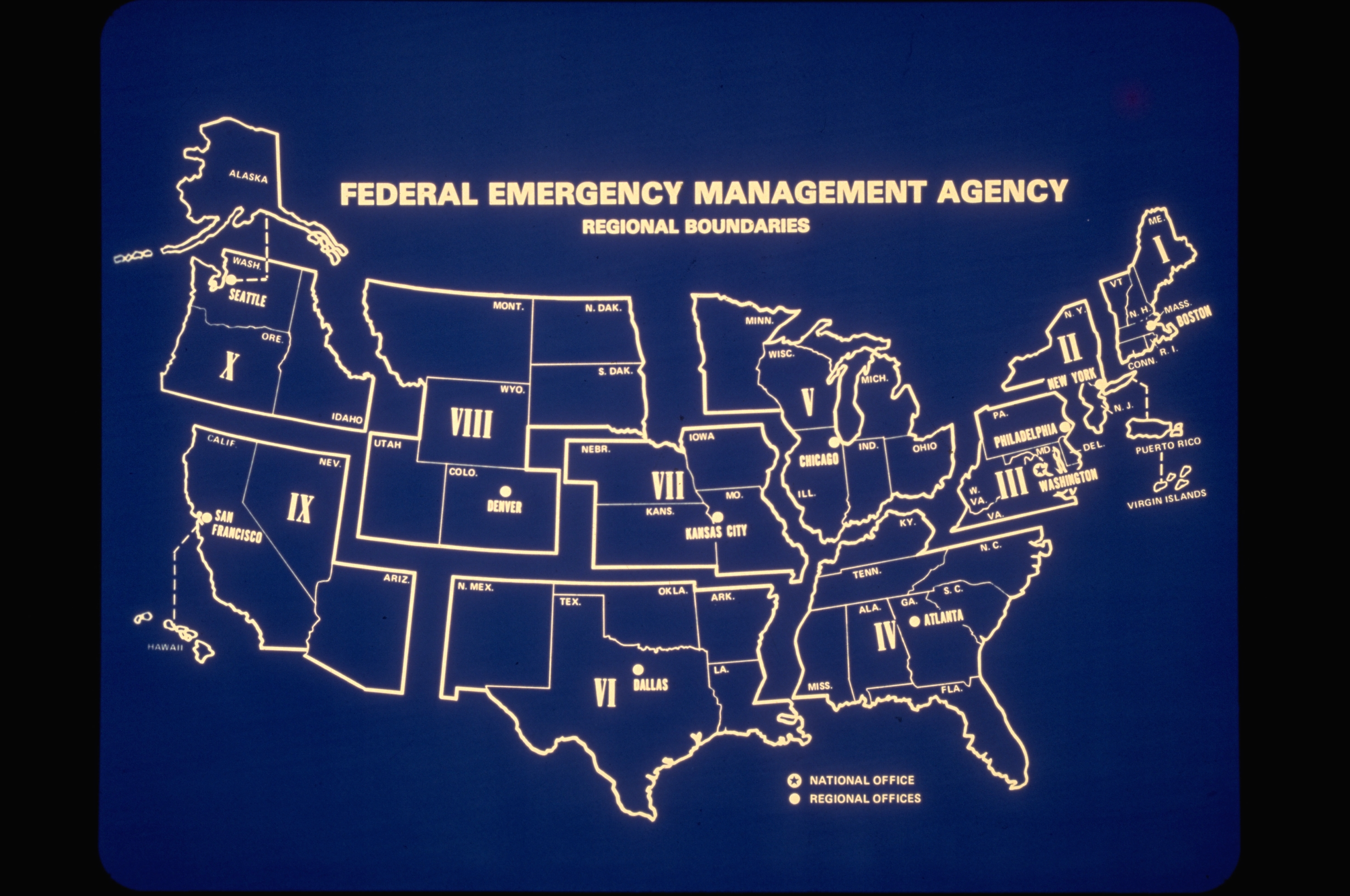 Disasters are devastating to the natural and man-made environment. FEMA provides federal aid and assistance to those who have been affected by all types of disaster. FEMA News Photo